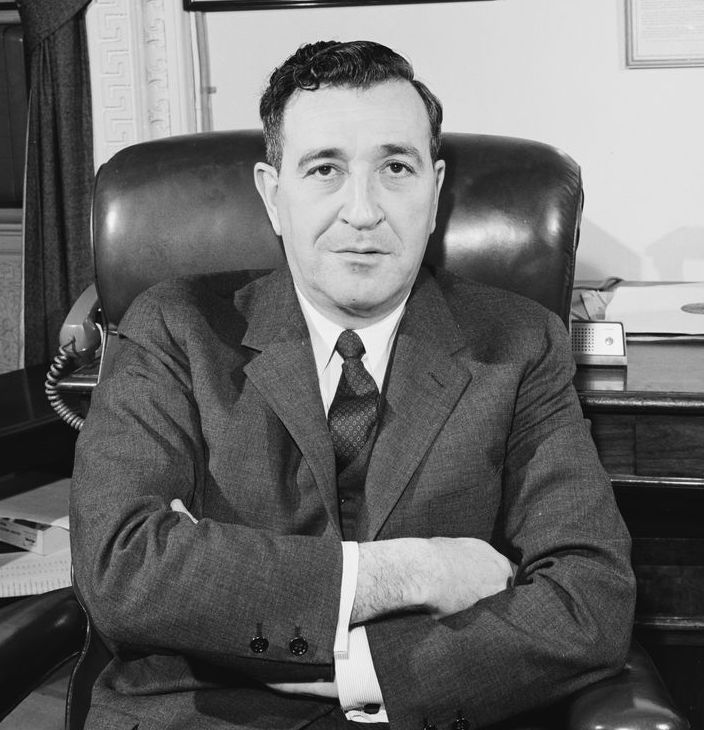 Special Assistant to the President for Science and Technology, Dr. Jerome Wiesner